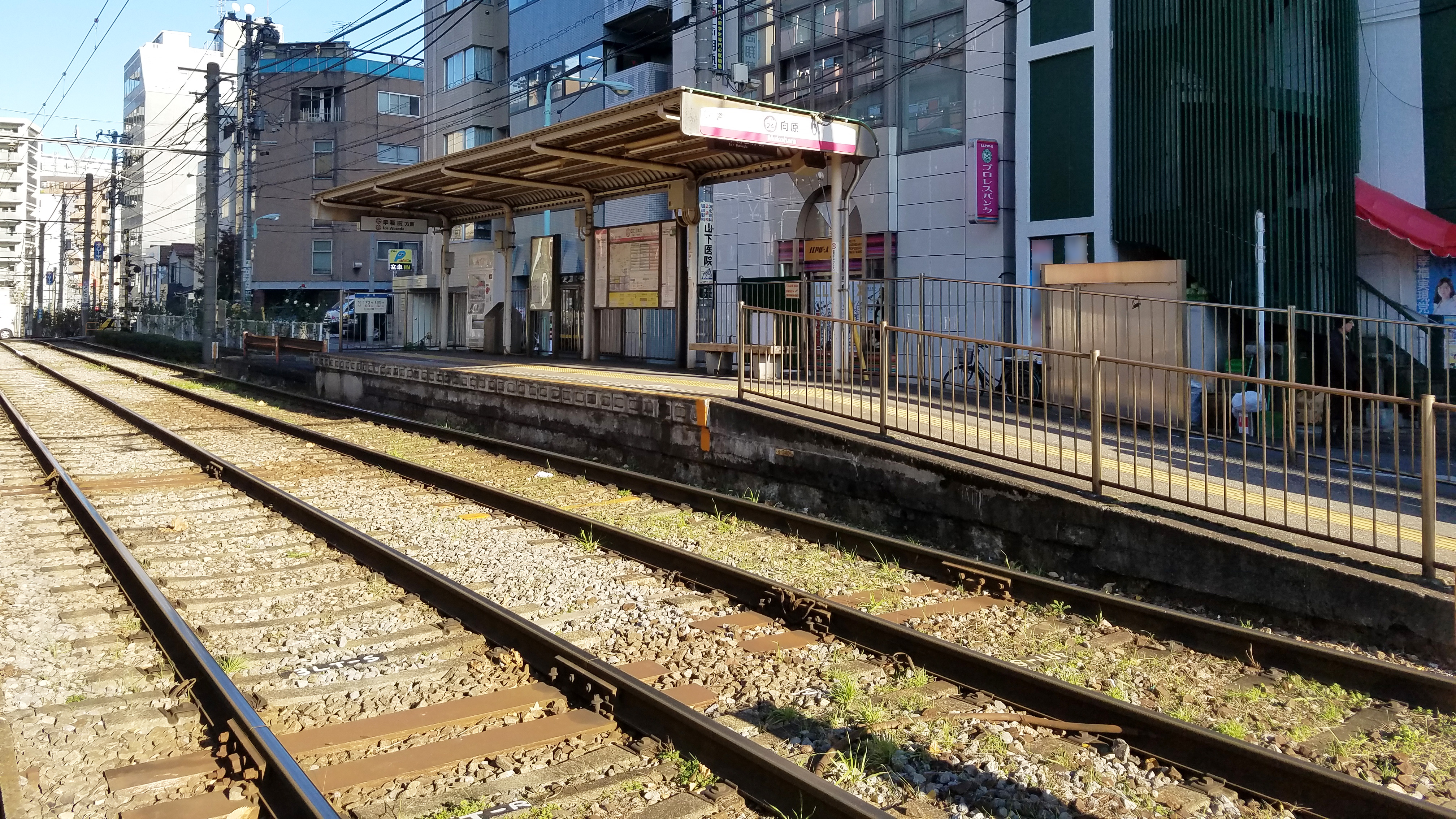 The Waseda-bound platform at Mukōhara Station on the Toden Arakawa Line(Tokyo Sakura Tram) in Toshima city, Tokyo, Japan